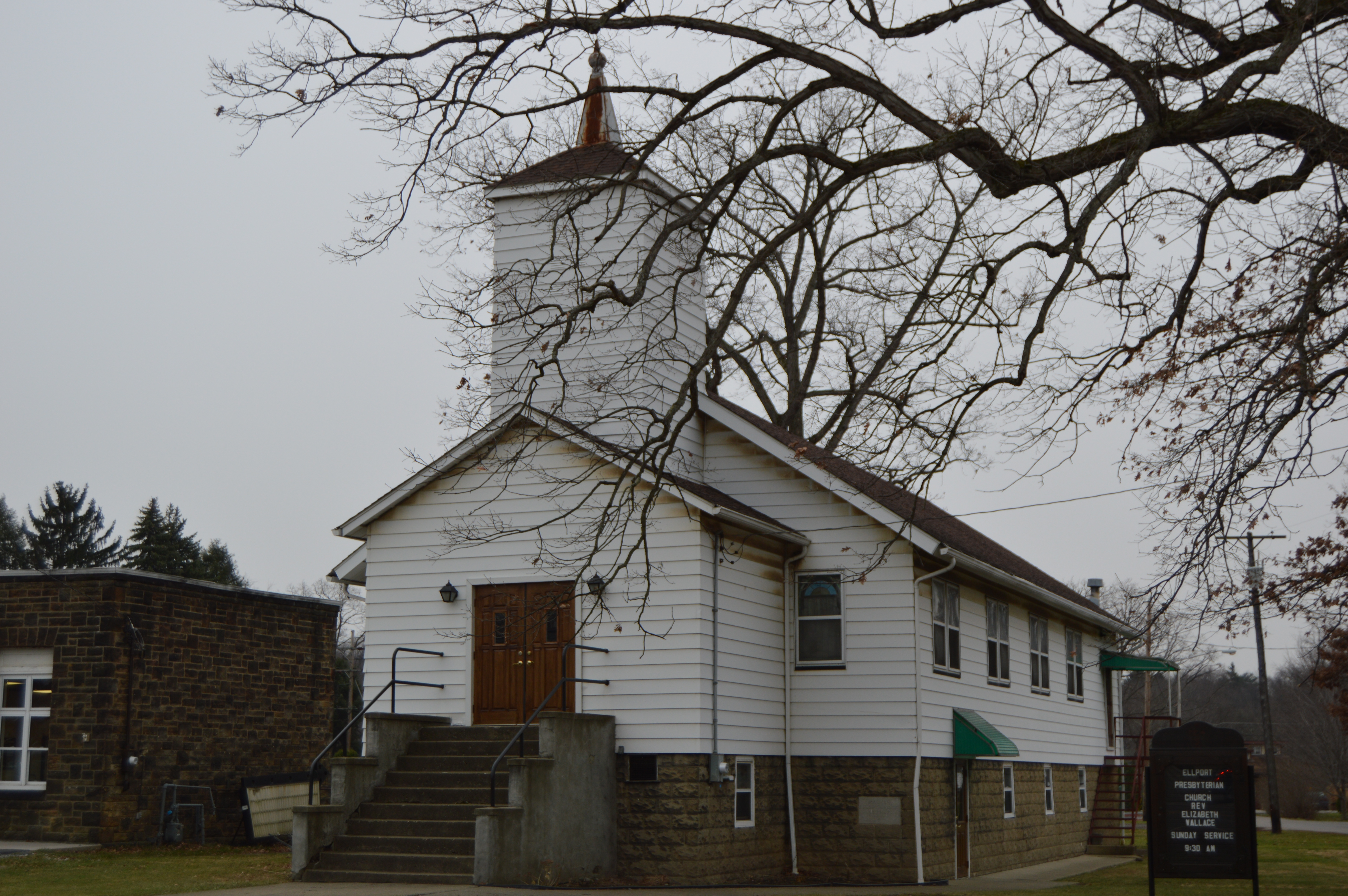 Western side and front of the Ellport Presbyterian Church, located at 221 Portersville Road (Pennsylvania Route 488) in Ellport, Pennsylvania, United States.